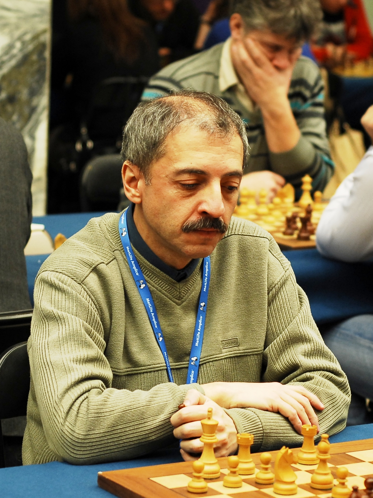 GM Eduardas Rozentalis, European Rapid Chess Championship, Warsaw 2012.